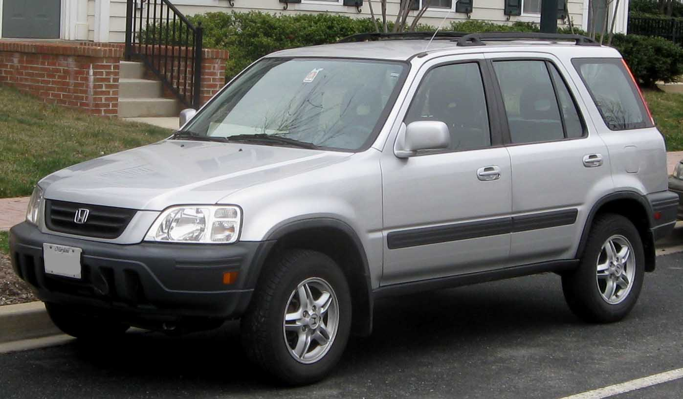 Honda CR-V photographed in Rockville, Maryland, USA.